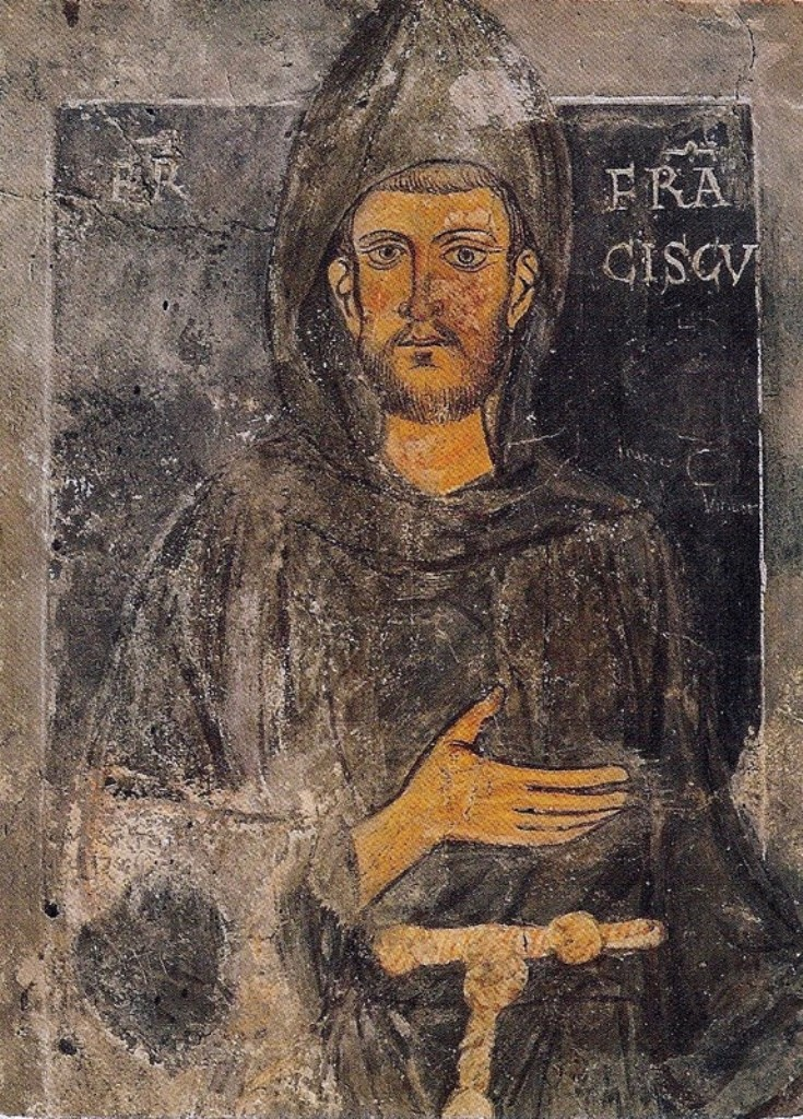 Top part of the oldest portrait of St. Francis, a mural painting in the sacred grotto “St. Benedict's Cave” in Subiaco.